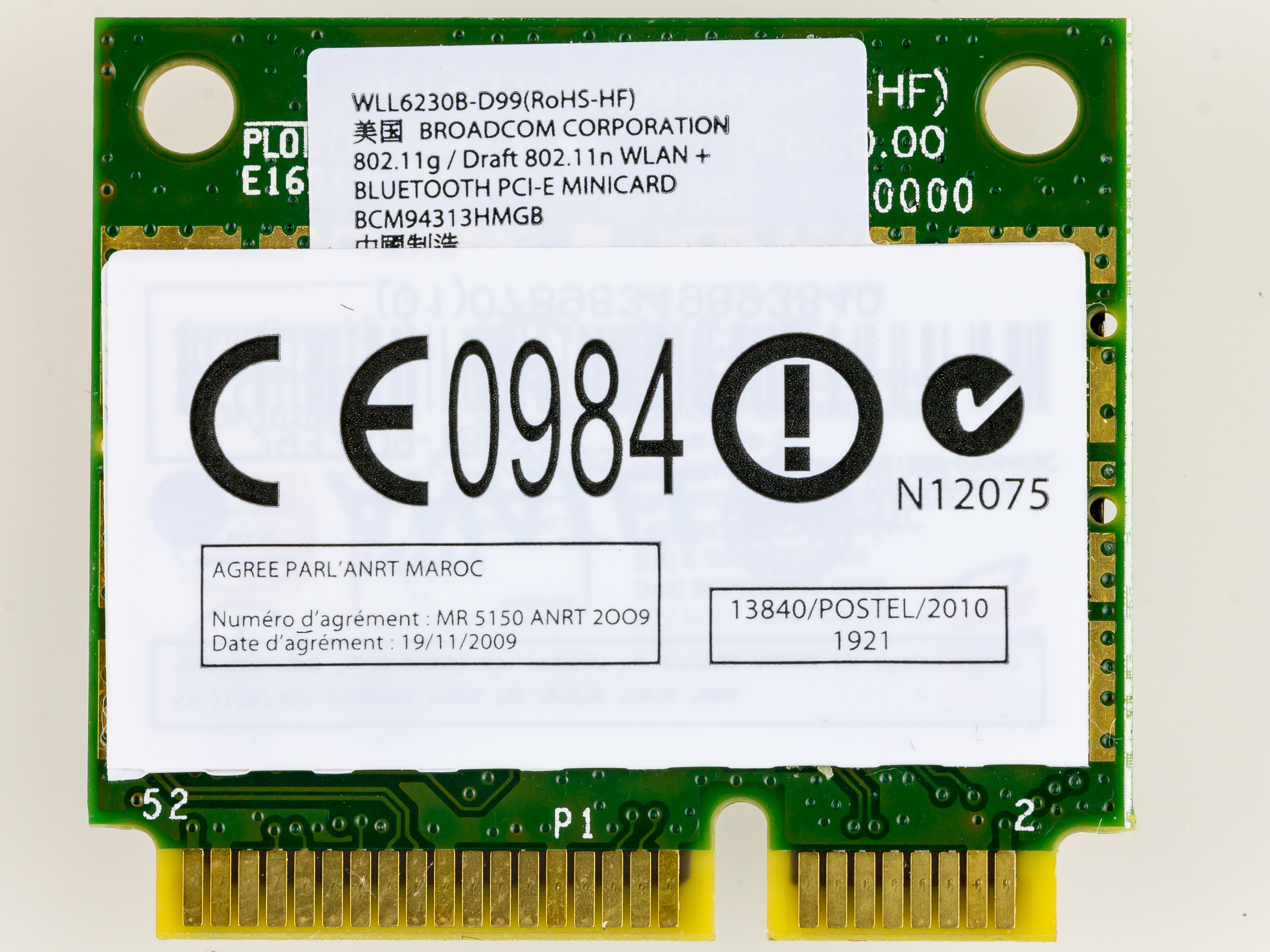 Broadcom WLL6230B-D99 - 802.11g/Draft 802.11n WLAN + Bluetooth PCI-E Minicard